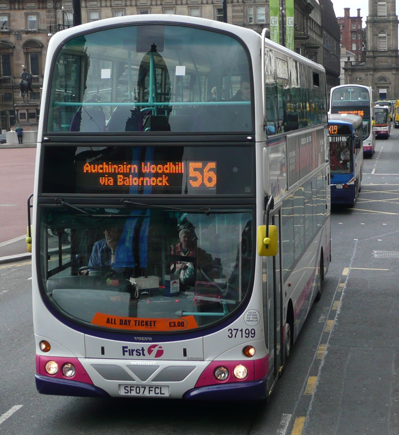 A First Glasgow Volvo B9TL/Wright Eclipse Gemini heading a line of buses through George Square.